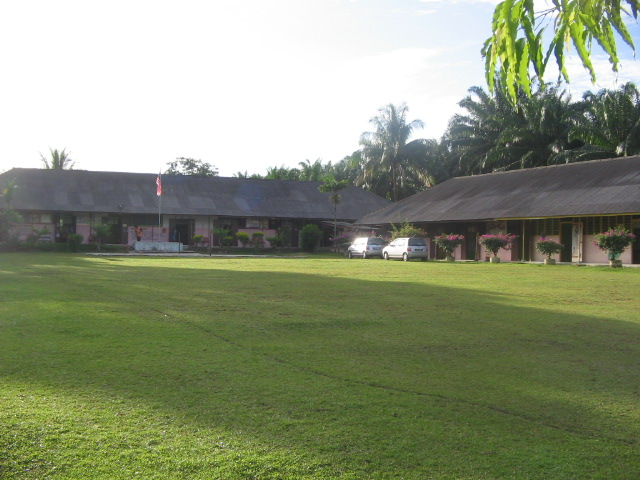 Depan sekolah